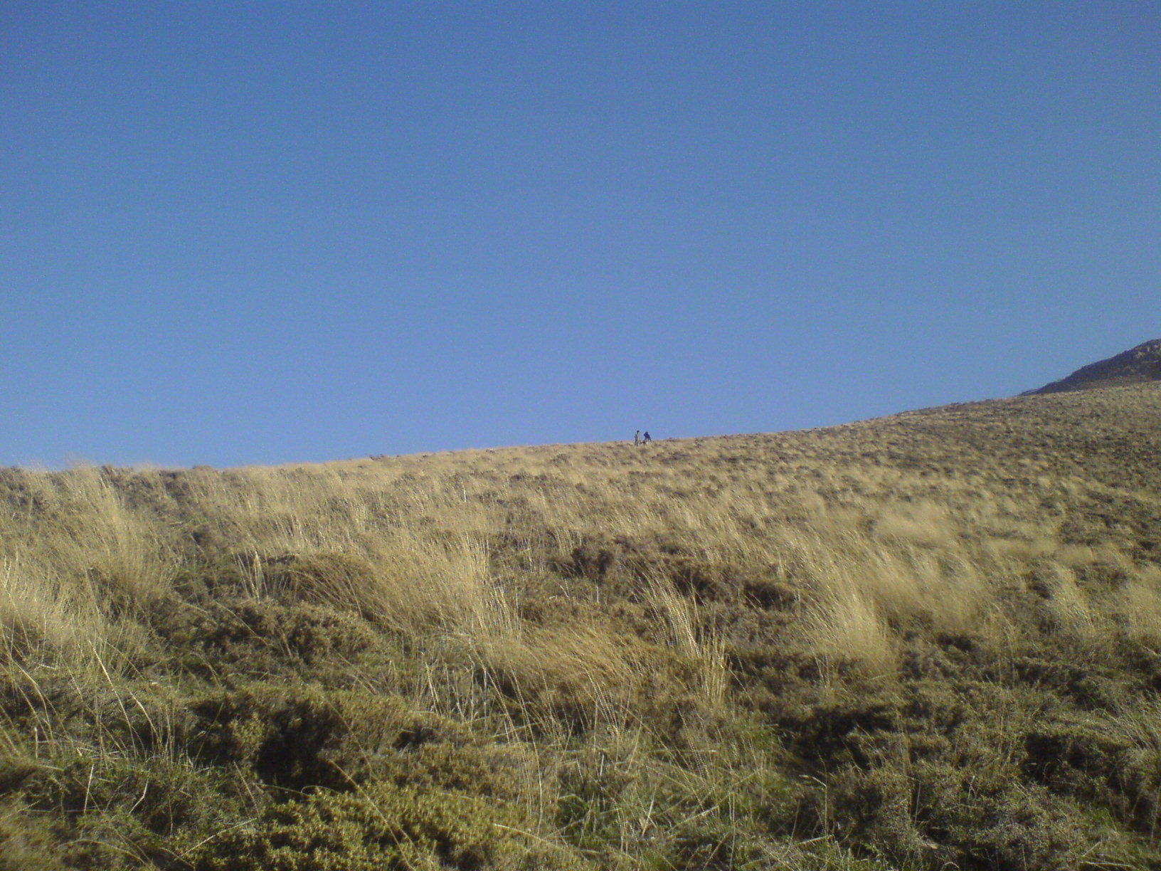 faraj abad فرج آباد روستایی زیبا در استان مرکزی شهرستان خمین